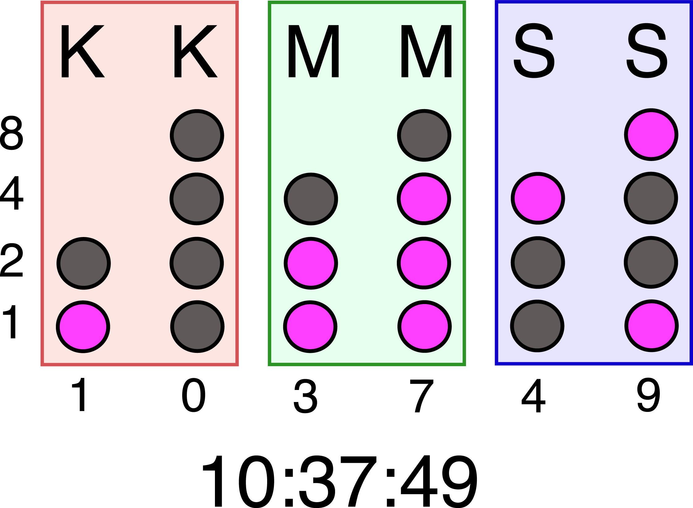 Visual explanation of a binary clock.